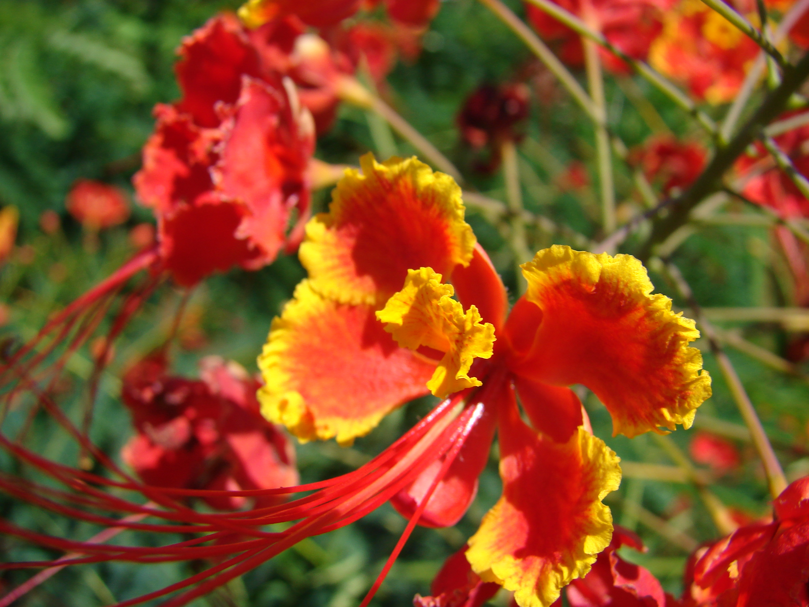 Caesalpinia pulcherrima (flowers). Location: Maui, Pukalani